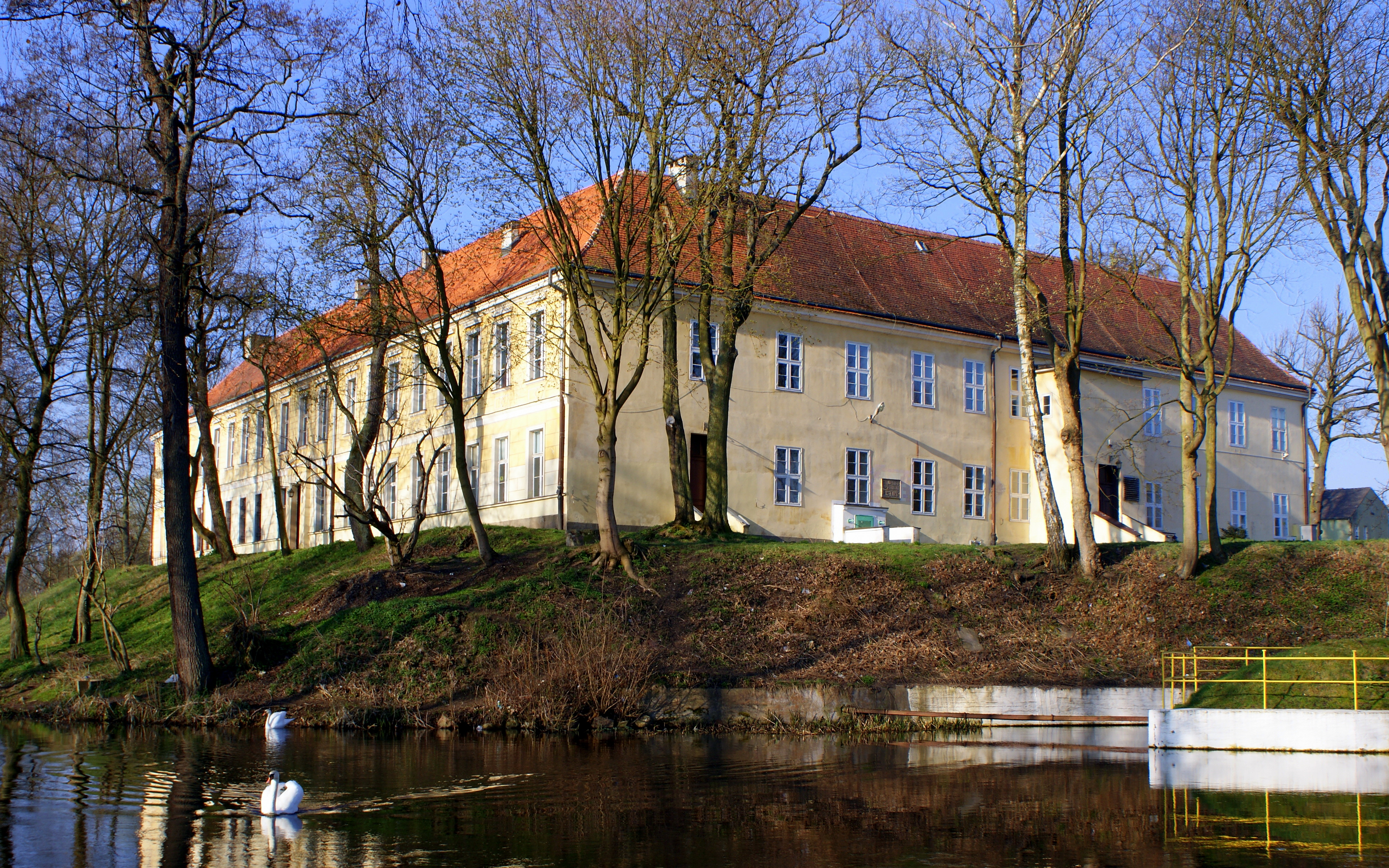 Palace in Trzebiatów, Poland